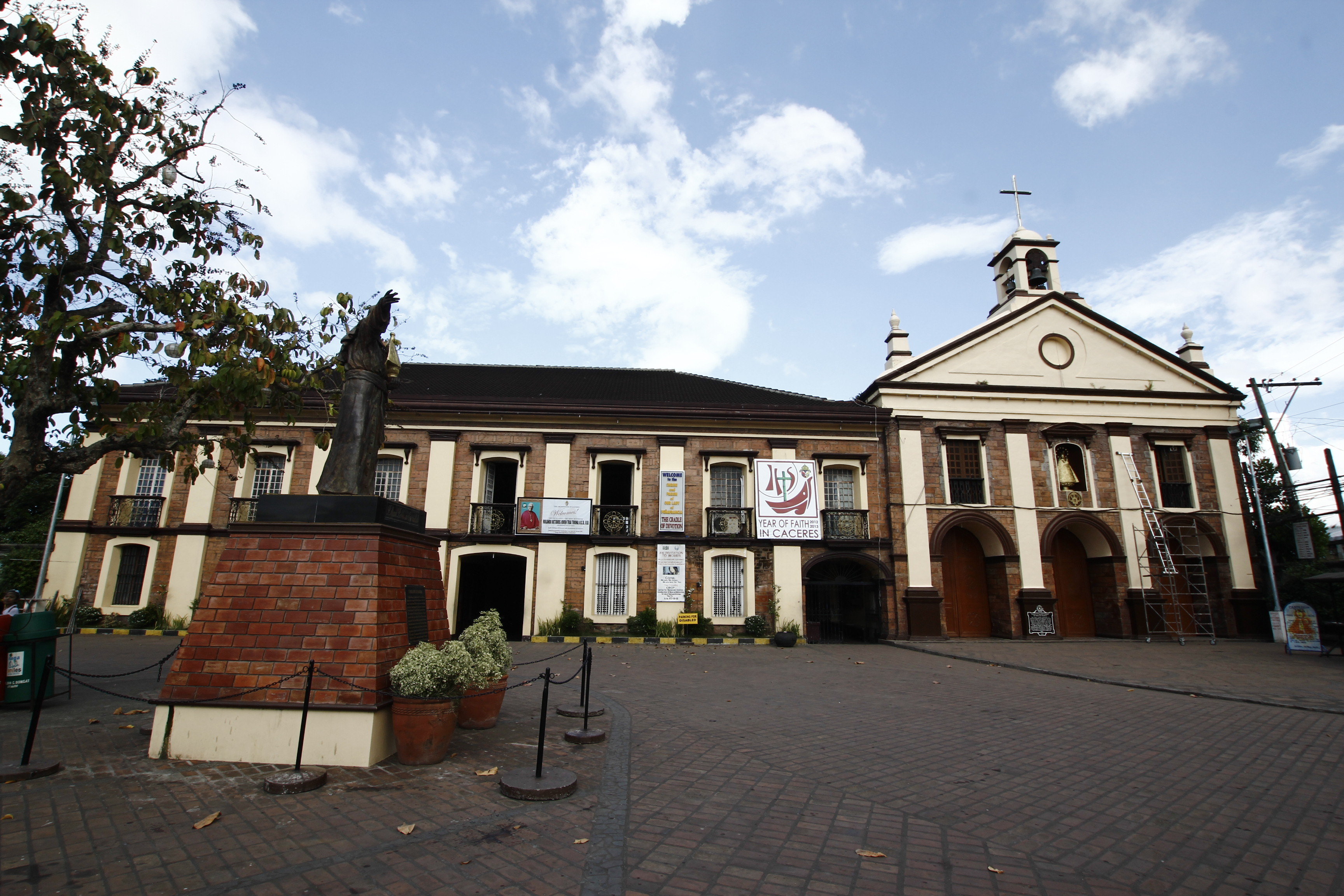 Peñafrancia Shrine